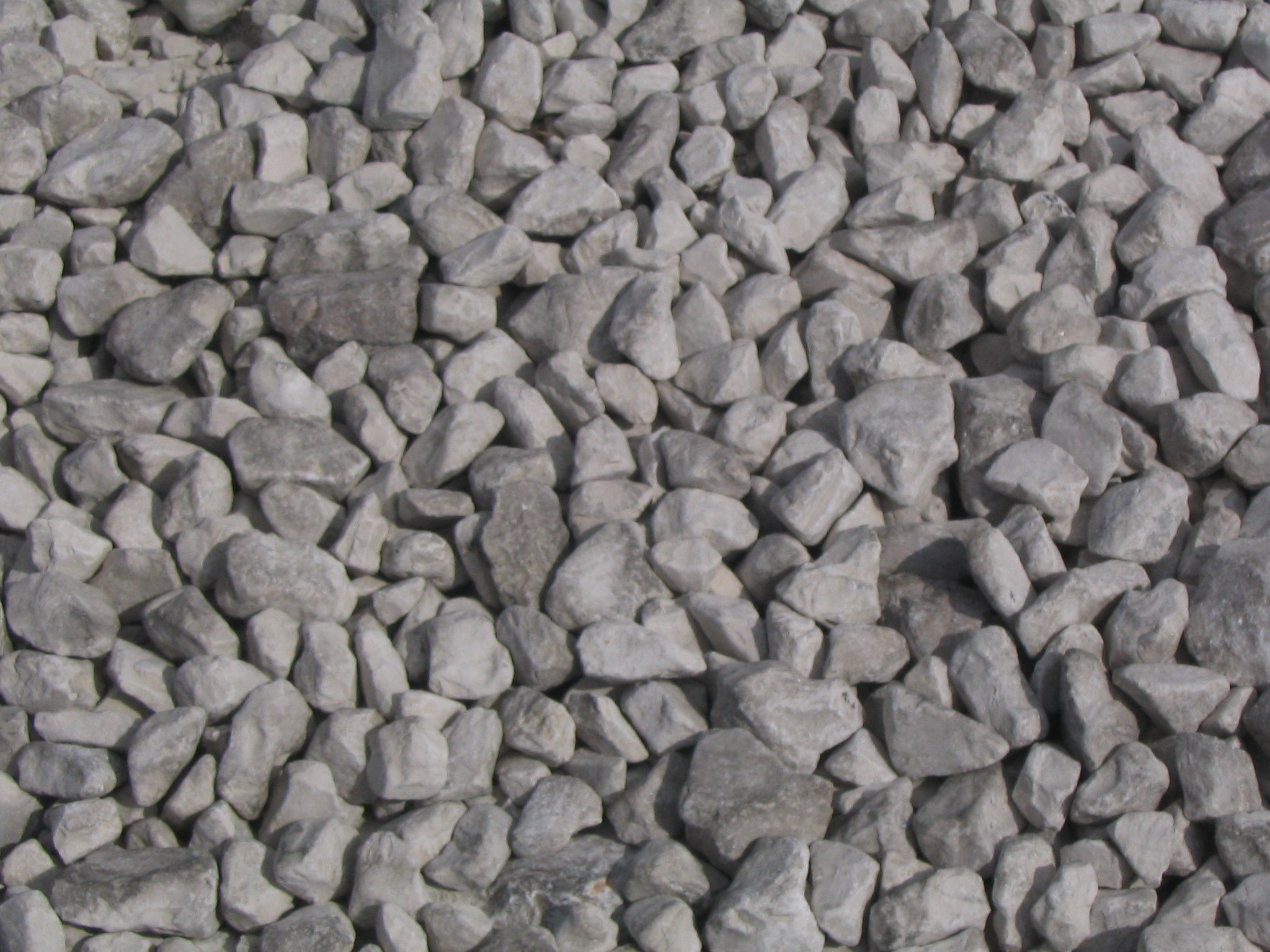 Gravel at the top of Vidova gora mountain, island of Brač, Croatia. A nice grasshopper was supposed to be on this image. Bit, it left to soon :).